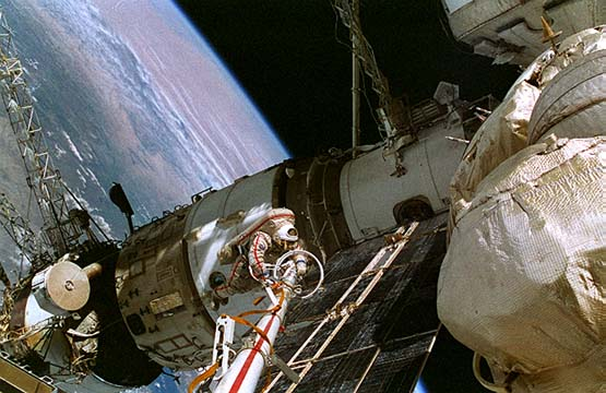 Cosmonaut Vasily Tsibliev seen traversing the Strela crane on the Russian space station Mir during EO-23.